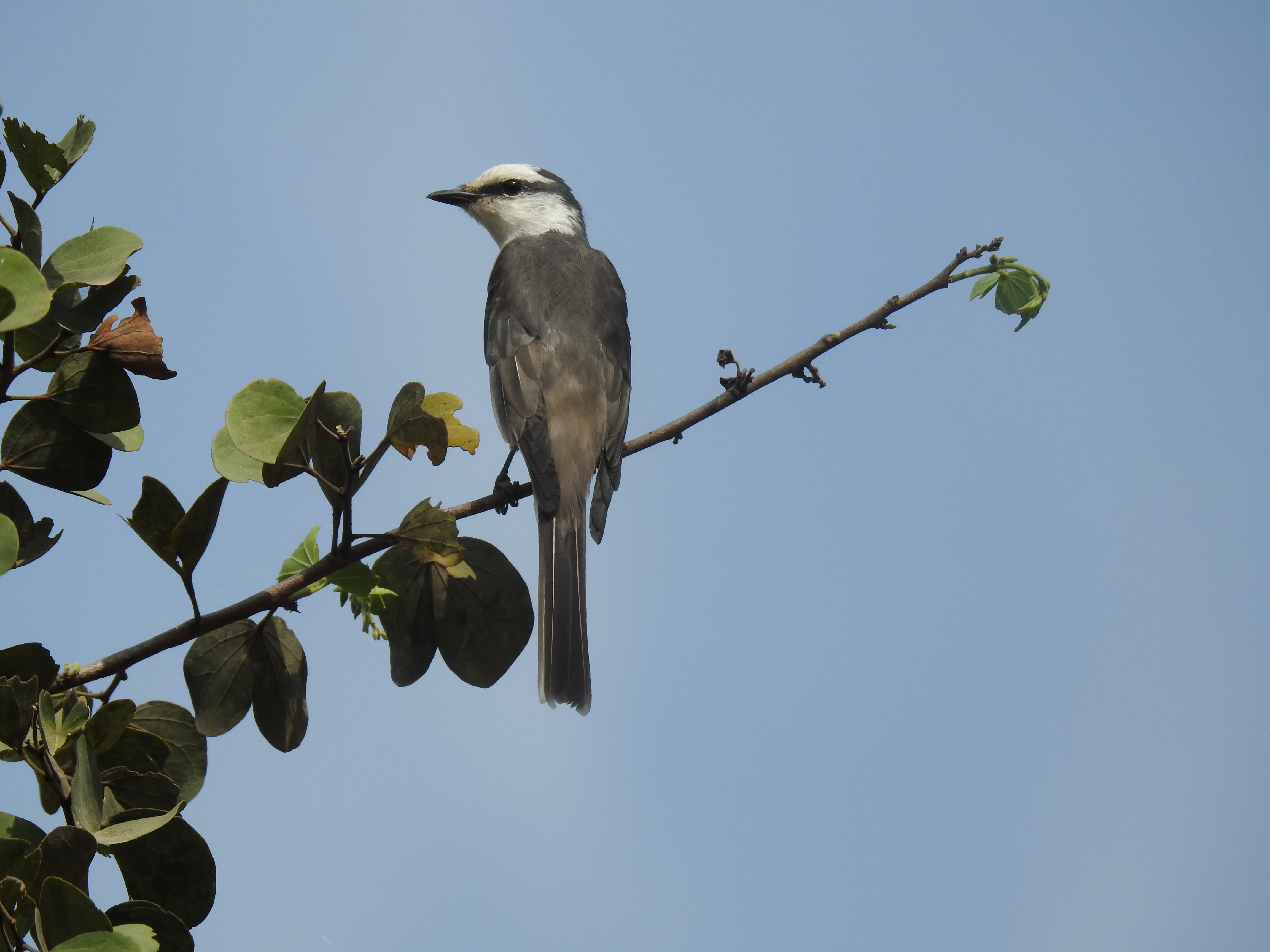 Swinhoe's minivet or Brown-rumped minivet (Pericrocotus cantonensis) in Bangalore